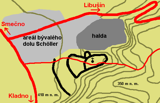 Map of grad Libušín in district Kladno.